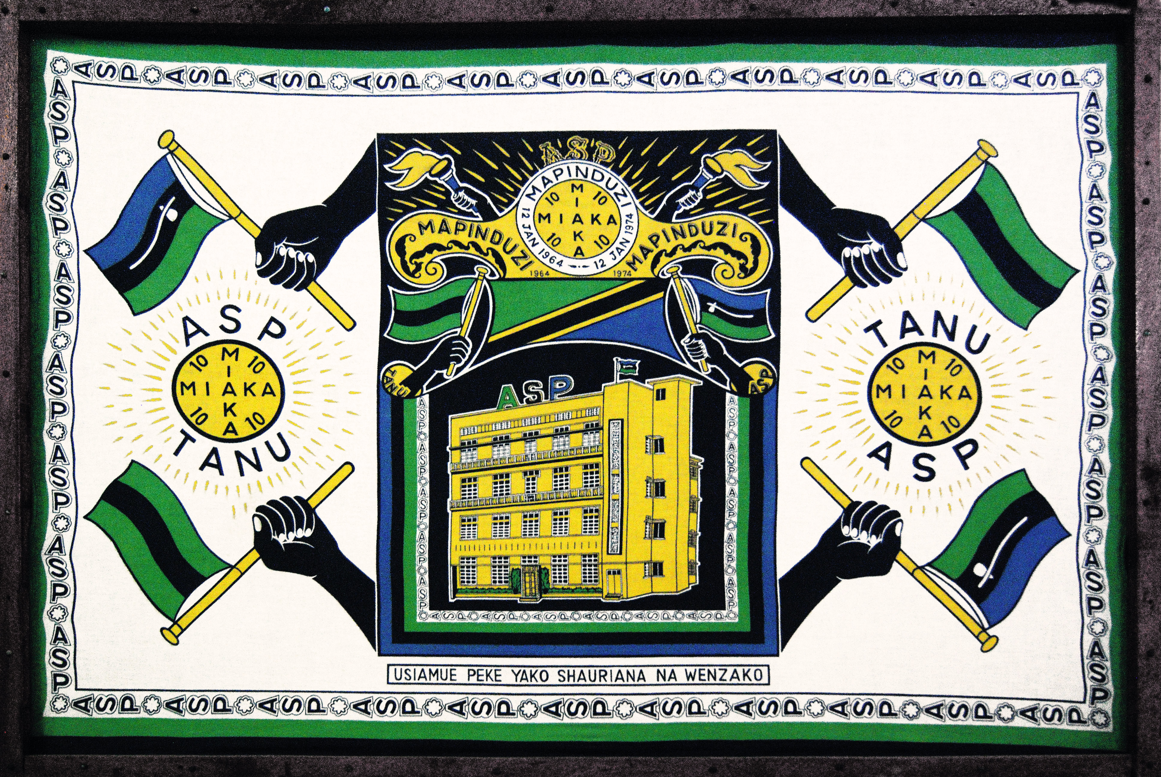 An elaborated kanga celebrating ten years of the (Zanzibari?) revolution ("mapinduzu"), as well as the two parties that would constitute the CCM party, i.e., the Afro-Shirazi Party and the TANU. This is exposed in the museum inside the Palace of Wonders in Stone Town.